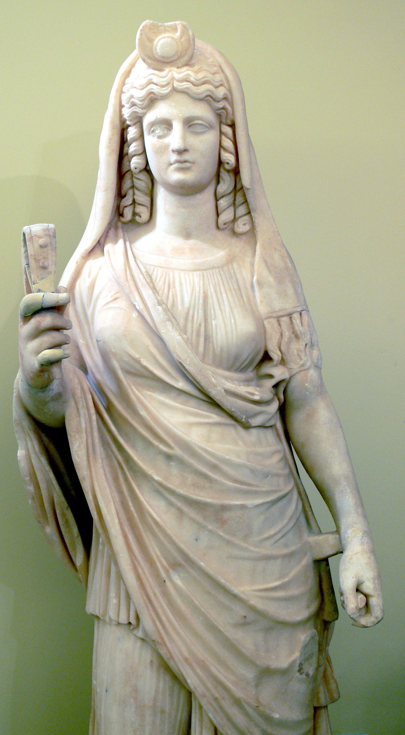 Archaeological Museum in Herakleion. Statue of Isis-Persephone holding a sistrum. Temple of the Egyptian gods, Gortyn. Roman period ( 180-190 A.C.)